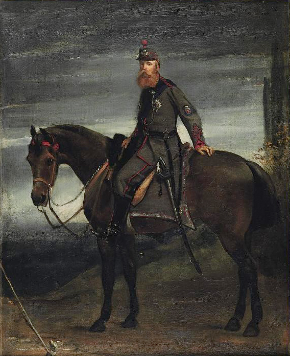 Portrait of John Poyntz, 5th Earl Spencer (1835-1910), on horseback, wearing a volunteer's uniform, Garter Star, and sword. This picture depicts the 5th Earl Spencer in the uniform of the 1st Northamptonshire Rifle Volunteers.